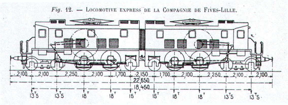 Drawing of the electric locomotive 2'B1'+1'B2' PLM 262 CE 1, 1926.